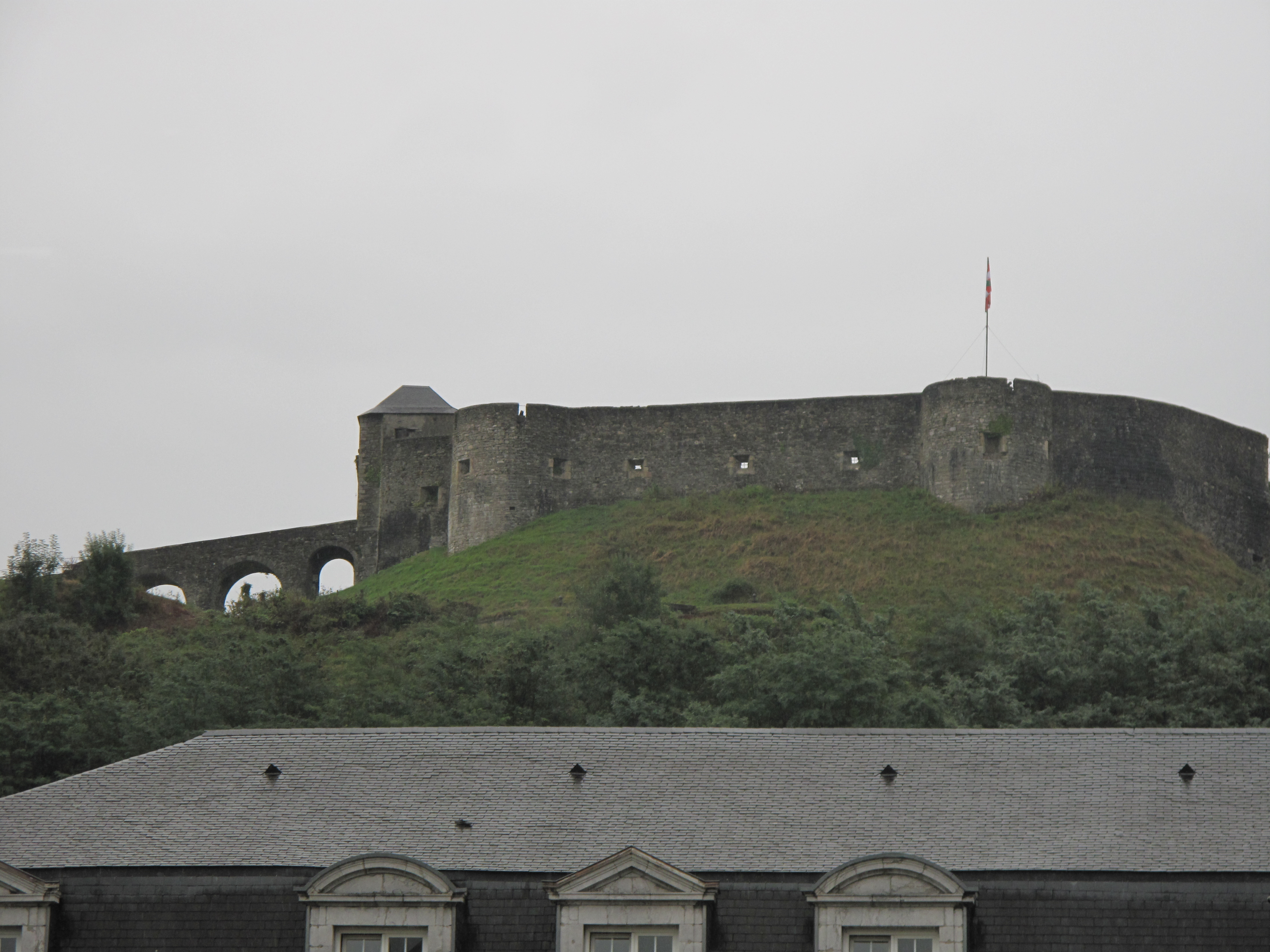 The castle of Mauléon-Licharre, seen from the square of les Allées, Pyrénées-Atlantiques, France